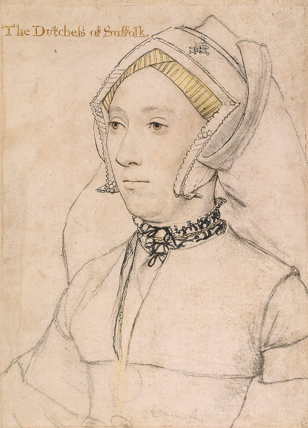 Portrait of Katherine, Duchess of Suffolk. Black and coloured chalks, pen and brush and Indian ink on pink-primed paper, 29.1 × 21.2 cm, Royal Collection, Windsor Castle. The drawing is rubbed and stained, but the reinforced lines are of good quality (Parker, p. 51). The inscription—added later and not necessarily reliable—identifies the sitter as Katherine Willoughby, 12th Baroness Willoughby de Eresby in her own right (1519–1580). After her father's death, she became the ward of Charles Brandon, 1st Duke of Suffolk, whom she married as his fourth wife in 1534, perhaps around the time of this drawing. Holbein painted miniature portraits of the couple's two sons Henry and Charles, who in 1551 were to die within hours of each other of the sweating sickness. Widowed in 1545, the duchess married Richard Bertie of Berested in about 1553. As a Protestant, she went into exile with her husband during the reign of Queen Mary, returning on the accession of Queen Elizabeth I in 1558. Reference K. T. Parker, The Drawings of Hans Holbein at Windsor Castle, Oxford: Phaidon, 1945, OCLC 822974.